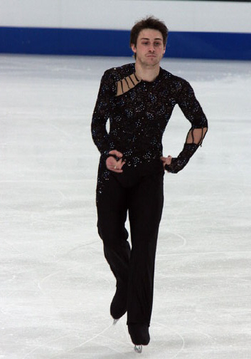 2009 European Figure Skating Championships - Brian Joubert